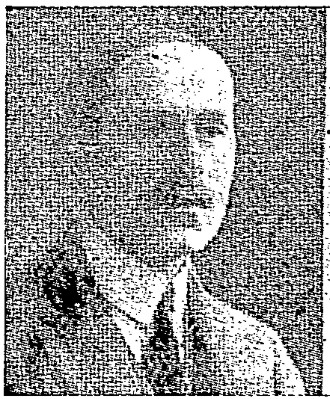 Karol Eisenstein